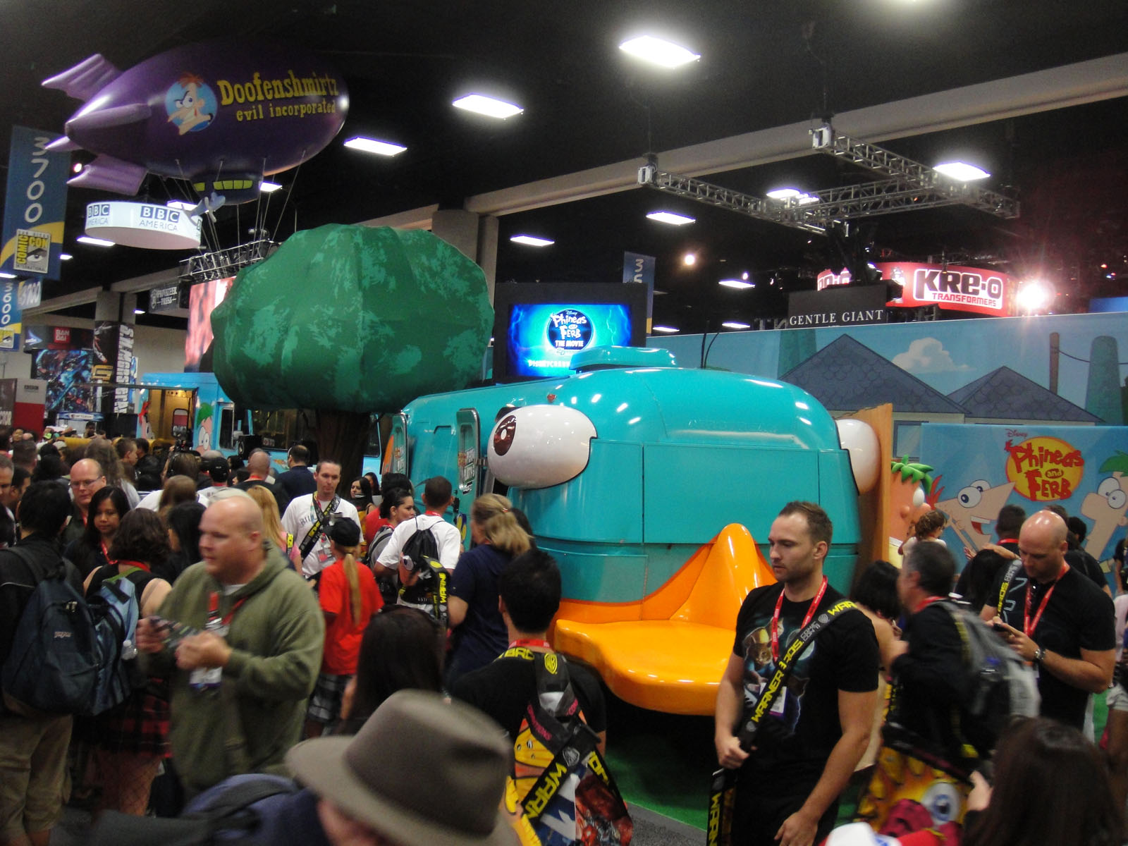 San Diego Comic-Con 2011 - Platybus from Phineas and Ferb